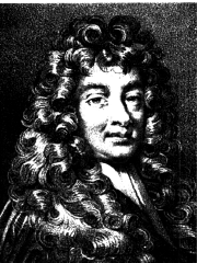 Philippe Quinault, French playwright, 1635-88